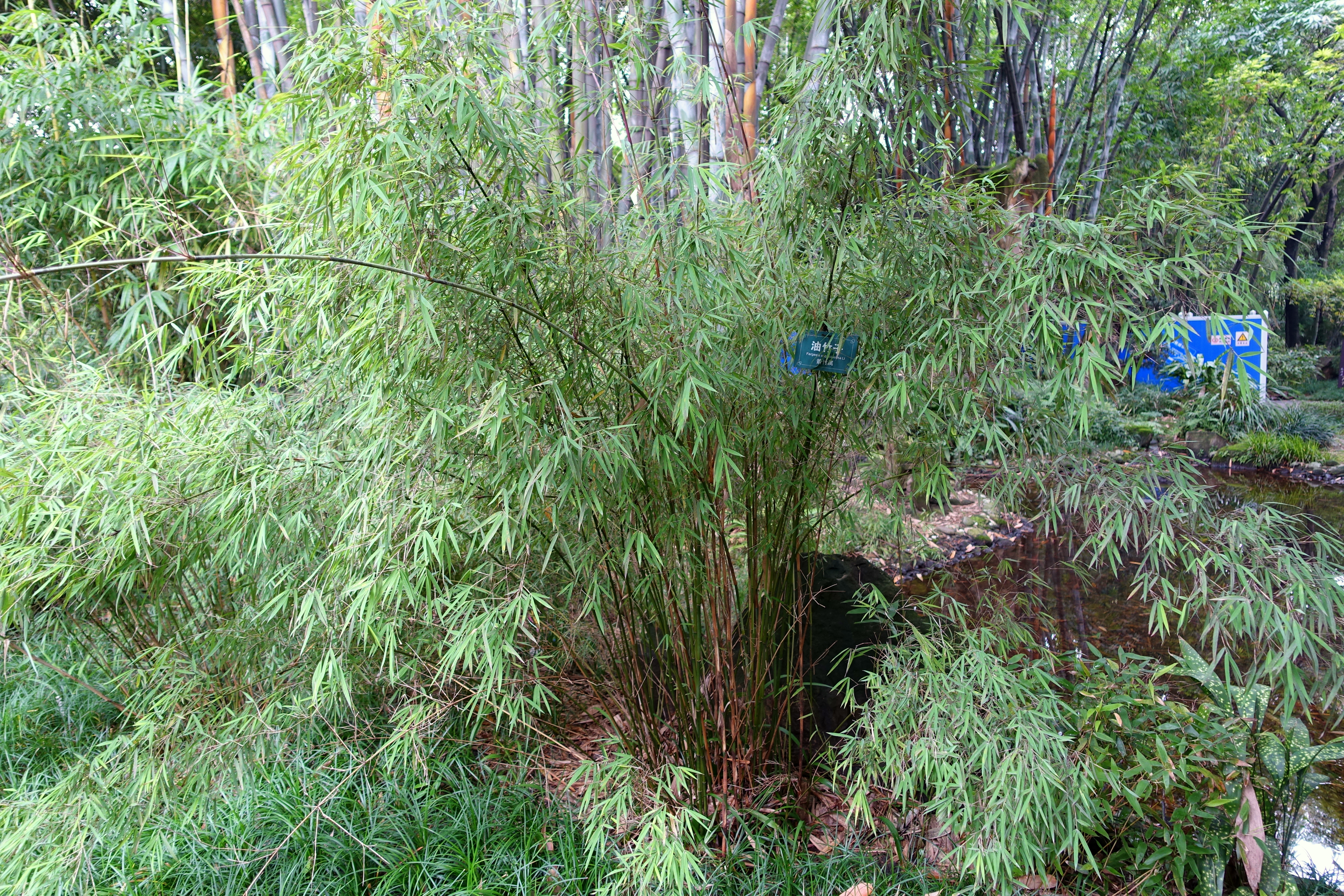 Bamboo specimen in Wangjianglou Park (望江楼公园) - Chengdu, Sichuan, China.